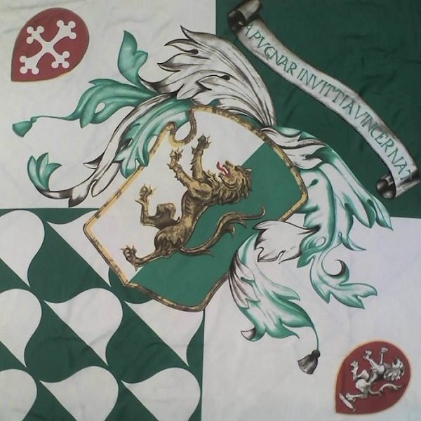 Quattro Strade shield